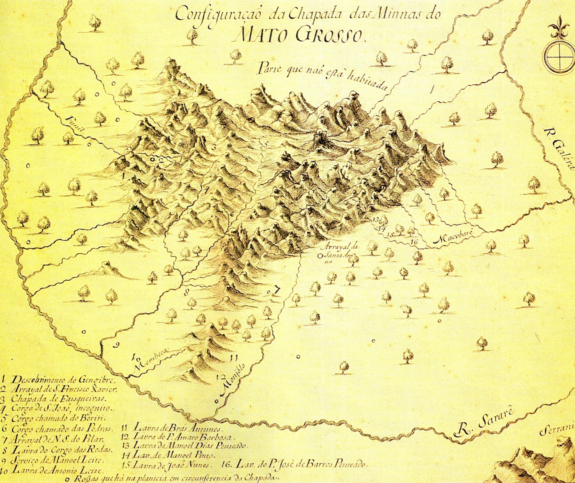 Towns and gold mines, in the region of Vila Bela da Santíssima Trindade, Mato Grosso, Brazil.